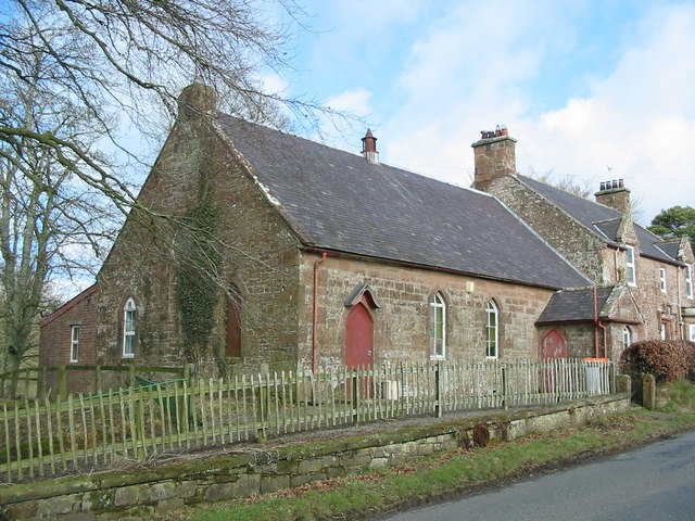 Chapelknowe Public Hall